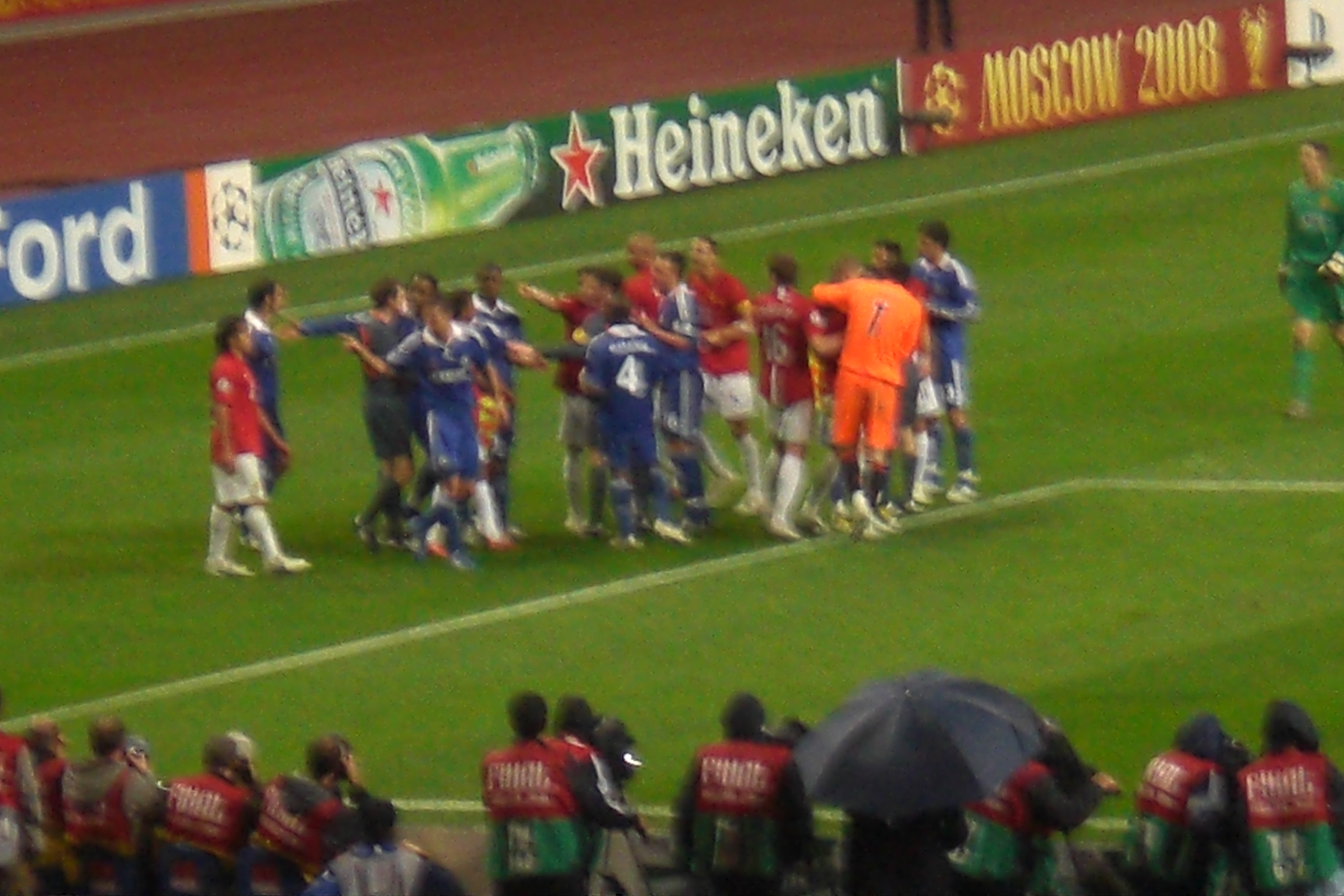 Champions League final at Luzjniki Stadion, Moscow